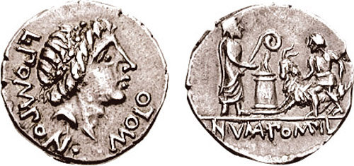 L. Pomponius Molo. 97 BC. AR Denarius (3.92 gm, 1h). Rome mint. L. POMPON. MOLO, laureate head of Apollo right NVMA POMPIL in exergue, Numa Pompilius standing right, holding lituus before lighted altar at which he is about to sacrifice a goat held by a youth. Crawford 334/1; Sydenham 607; Kestner 2643; BMCRR Italy 733; Pomponia 6. EF, toned.